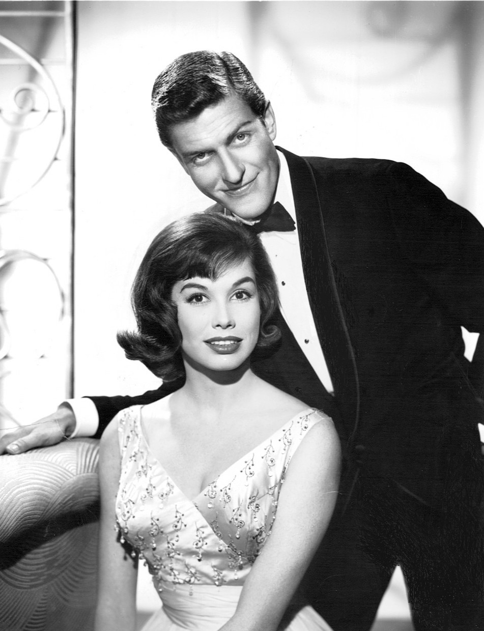 Photo of Mary Tyler Moore and Dick Van Dyke from the premiere of The Dick Van Dyke Show.